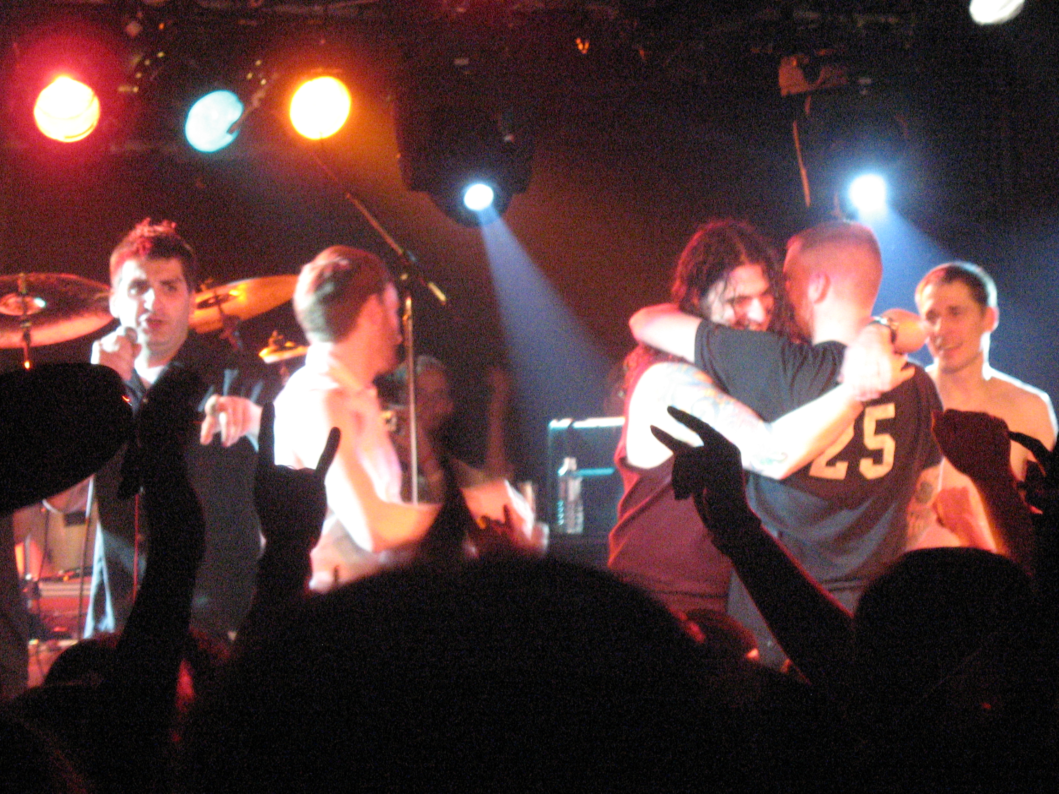 Dog Fashion Disco's final curtain call in Baltimore, Maryland at Sonar.